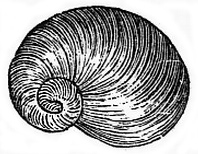 1863 engraving of dorsal view of the shell of Vitrina pellucida by Orlando Jewitt